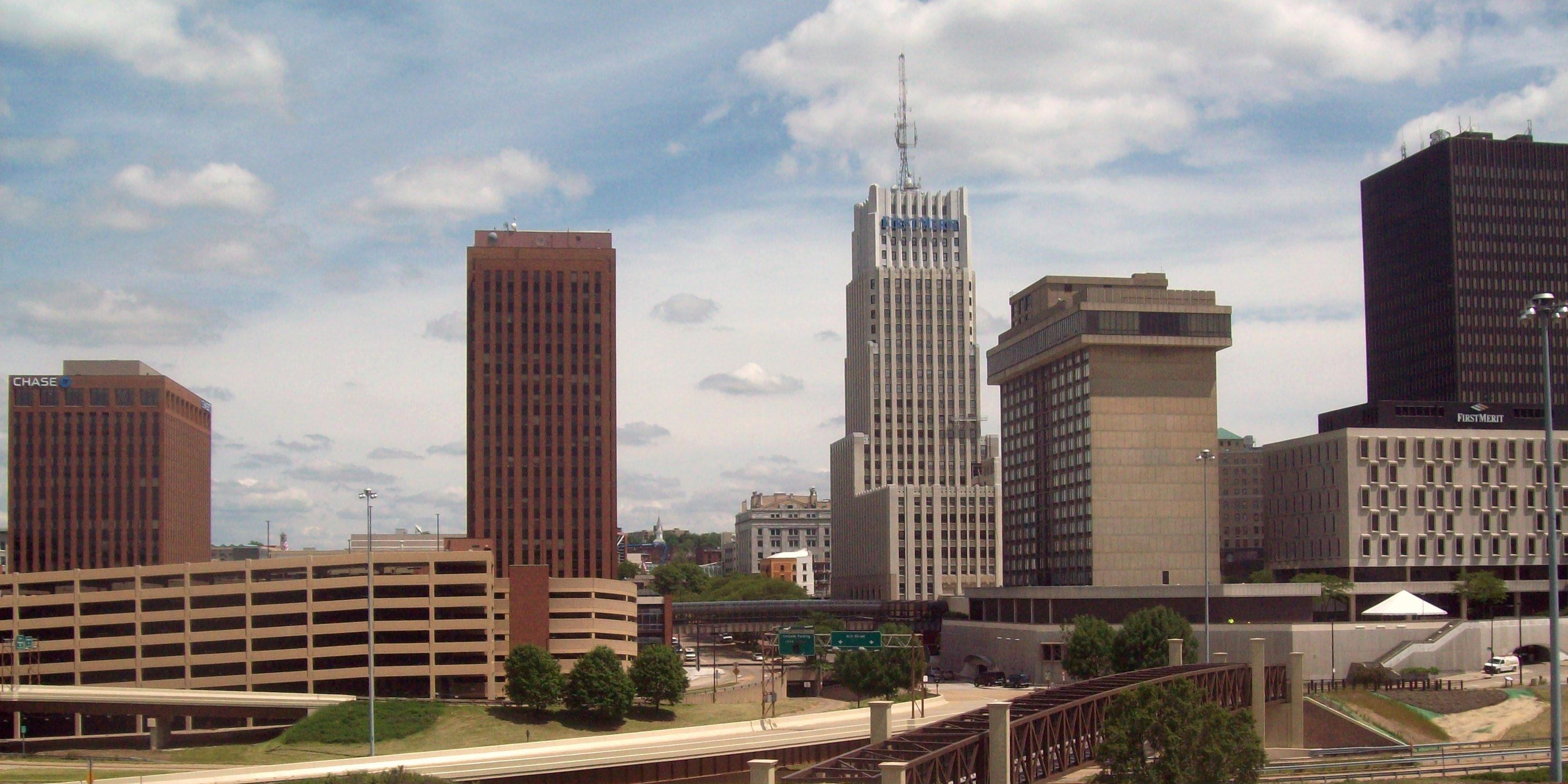 Akron Ohio